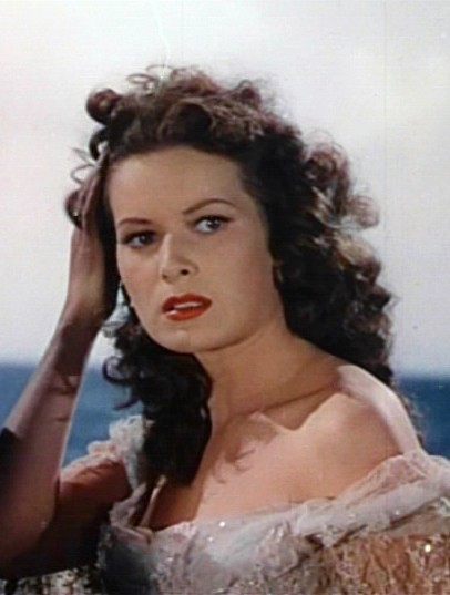 Maureen O'Hara in a screenshot from the trailer for the film The Black Swan (1942).